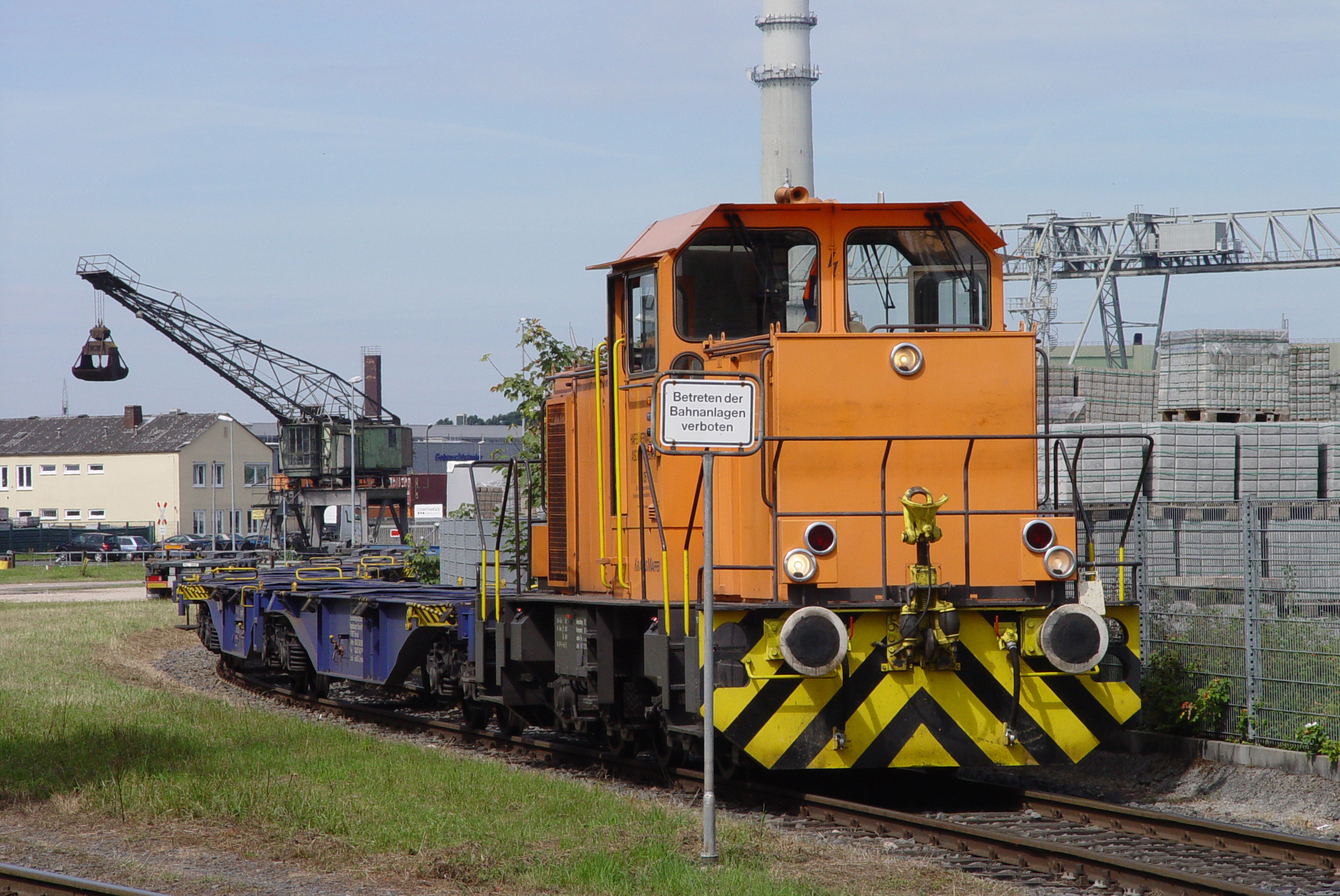 Engine 1 of Bayernhafen Aschaffenburg (Krauss-Maffei ME05, former DB 259 001-6, the only DB engine of this type) in the port of Aschaffenburg. The engine has been sold in 2010 to NetRail AB, Schweden